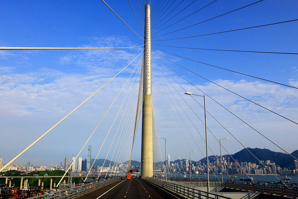 The Stonecutters Bridge over the Rambler Channel in Hong Kong